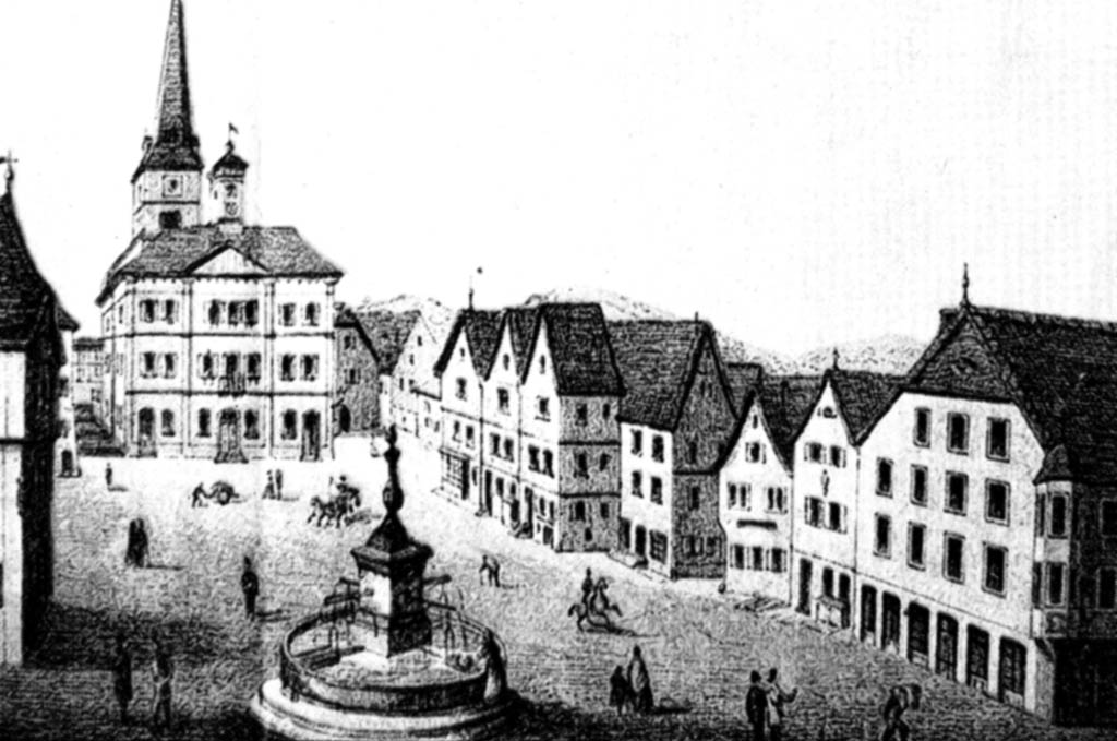 Lithographic picture of Bensheim's marketplace from 1869, made by F. Rau